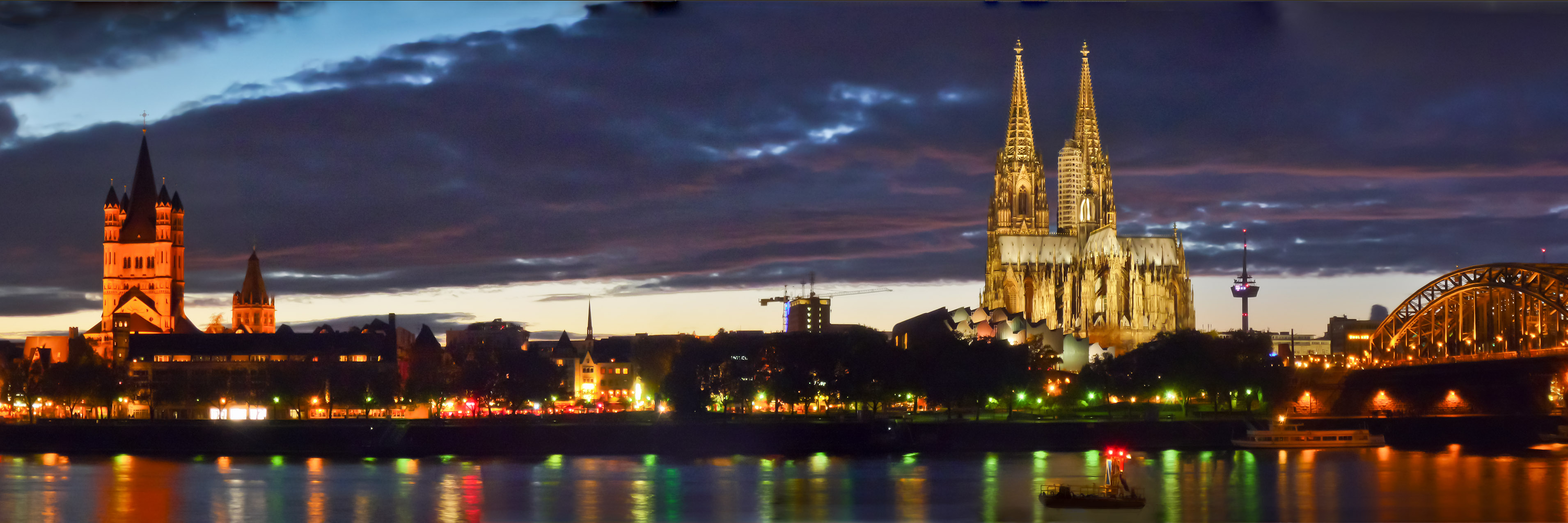 Bank of the Rhine with Church Great St. Martin, Cologne Cathedral, Hohenzollernbrücke (bridge). Cologne, Germany.